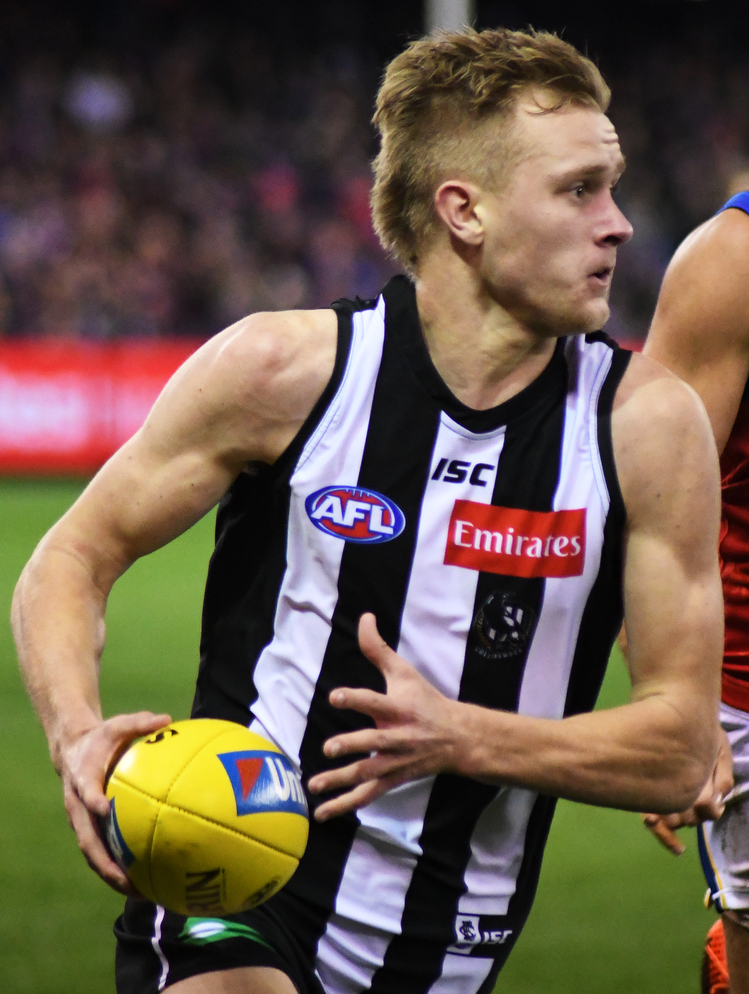 Jaidyn Stephenson of Collingwood during the 2018 AFL round 21 match between Collingwood and Brisbane at Etihad Stadium on Saturday, 11 August 2018 in Melbourne, Victoria.